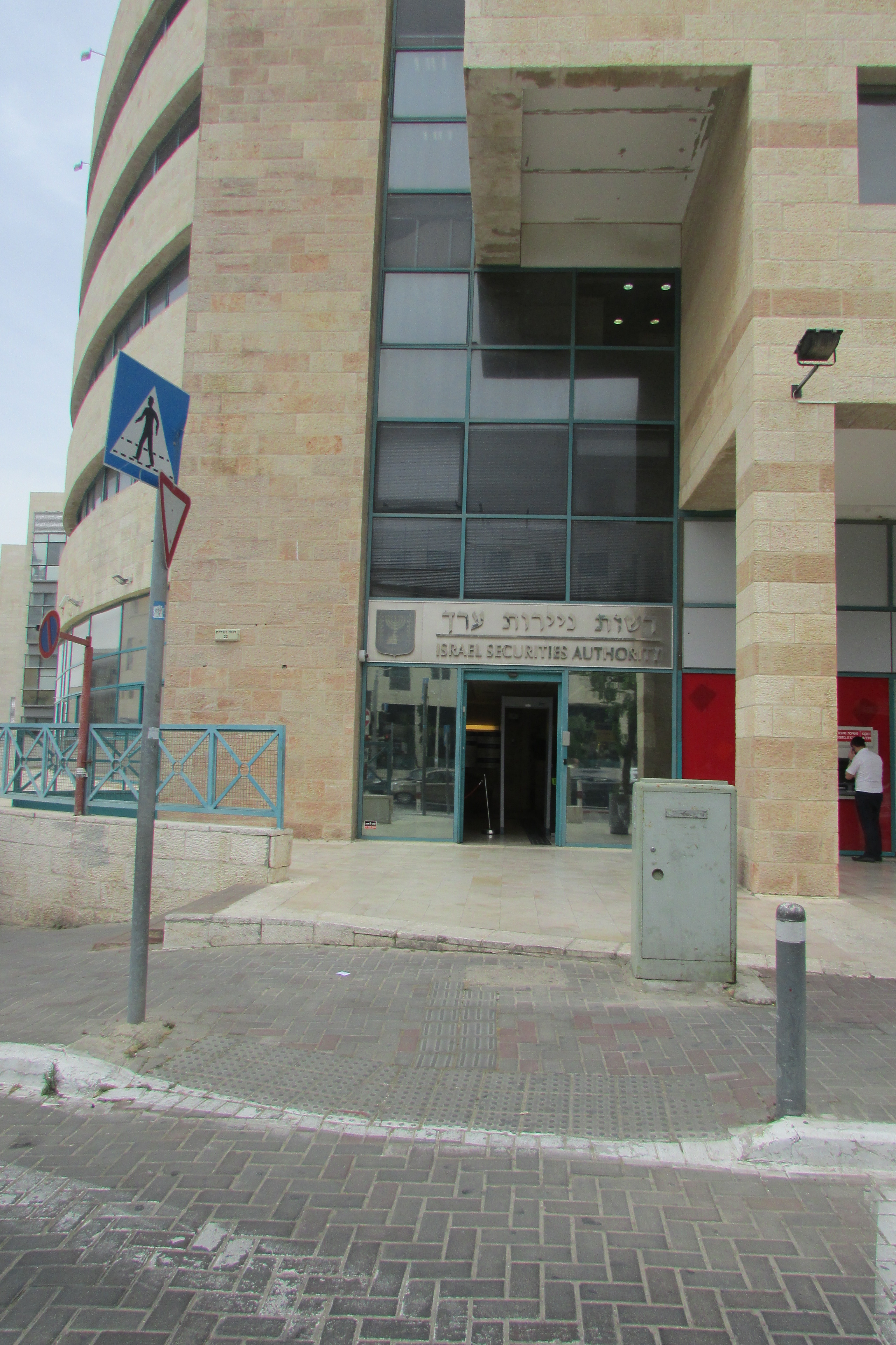 Israel Securities Authority office in Jerusalem